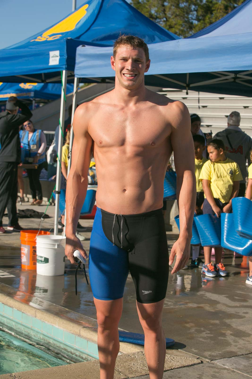 Ryan Murphy poses after winning 200 back - vertical